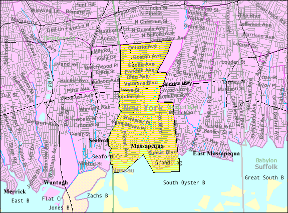 U.S. Census 2000 reference map for Massapequa